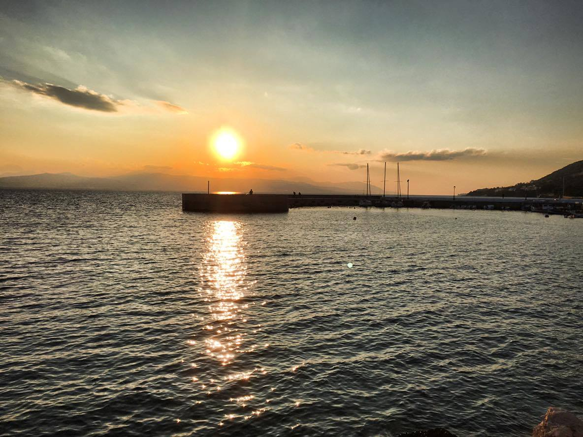 sunset at Loutraki-Greece